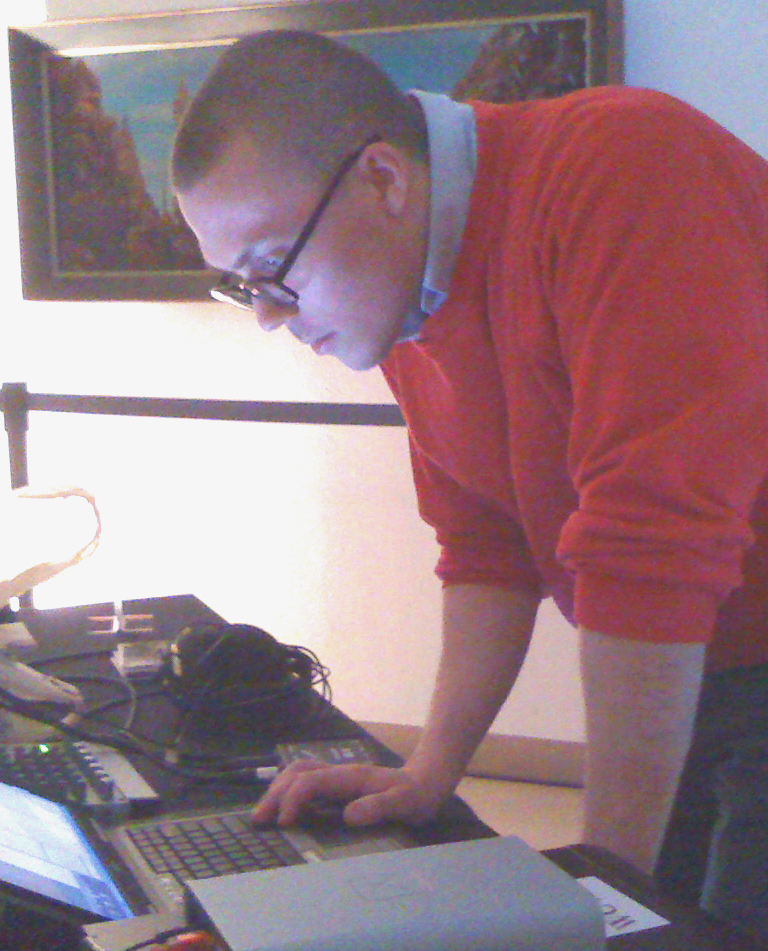 Anthony Fantano (The Needle Drop) at PAAH at the Wadsworth Atheneum Museum of Art in Hartford, Connecticut in 2010